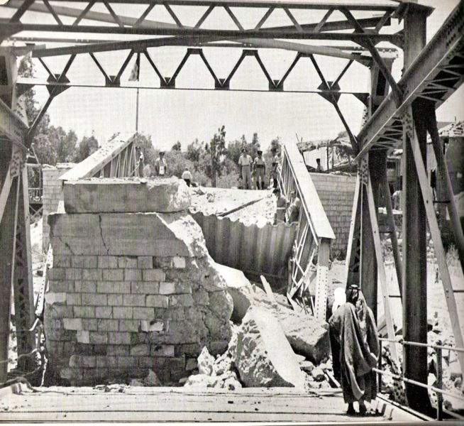 From he.wikipedia